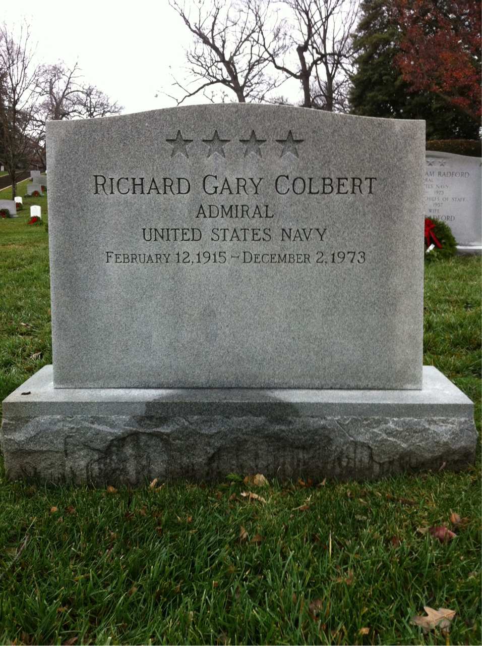 Grave of Richard G. Colbert at Arlington National Cemetery